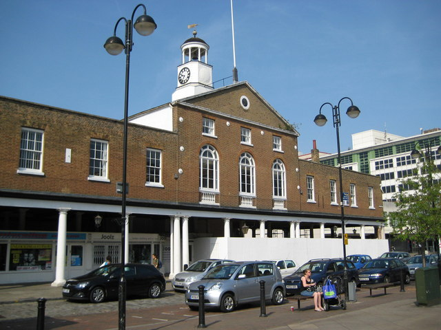 Uxbridge: The Market House The building dates from 1789 and replaced an earlier structure that was itself a replacement for an even earlier one. This long frontage on the High Street effectively concealed 798737 from the main thoroughfare through the town. The upper floor is supported with Tuscan columns although the ones to the right are currently hoarded off. The whole building is capped with a clock turret supporting a cupola. As ever the usual test of determining how well a building is looked after and cared for is the status of the clock, if it has one, and it's good to report that the clock on this building was telling the correct time!